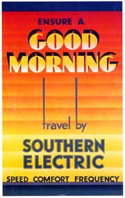 1933 poster for the Southern Railway's newly-electrified suburban services. From The Lordprice Collection. This picture is the copyright of the Lordprice Collection and is reproduced on Wikipedia with their permission.